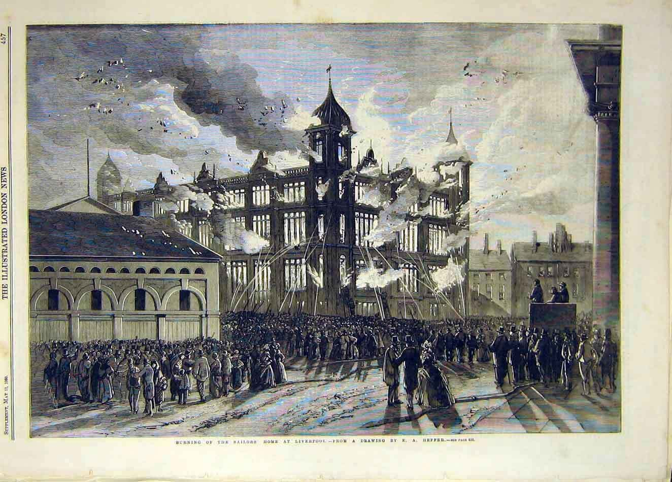 Illustrated London News engraving of the Destruction of the Liverpool Sailors' Home on the night of the 29th of April 1860